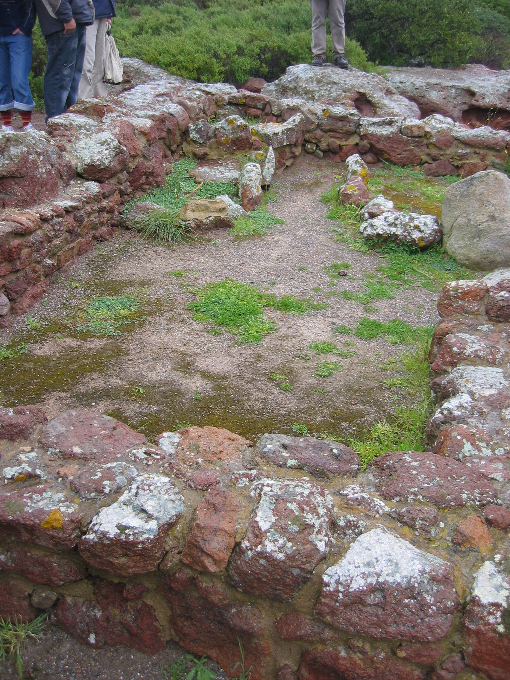 Monte Sirai, Sardinia (Italy)